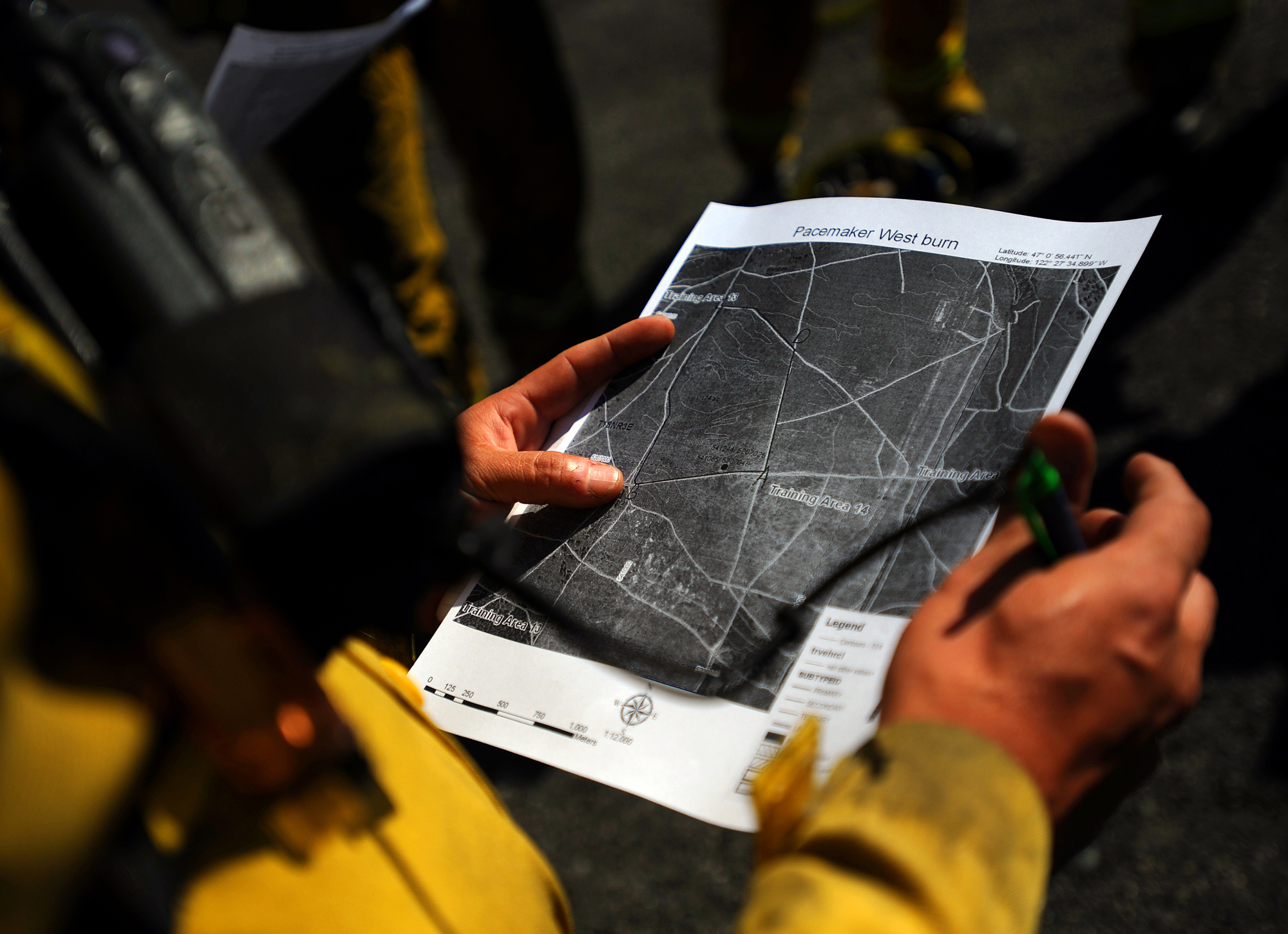 Eric Rosenquist, a Nature Conservancy "Burn Boss", looks over a chart of the training area as he briefs fellow firefighters before overseeing a controlled burn.